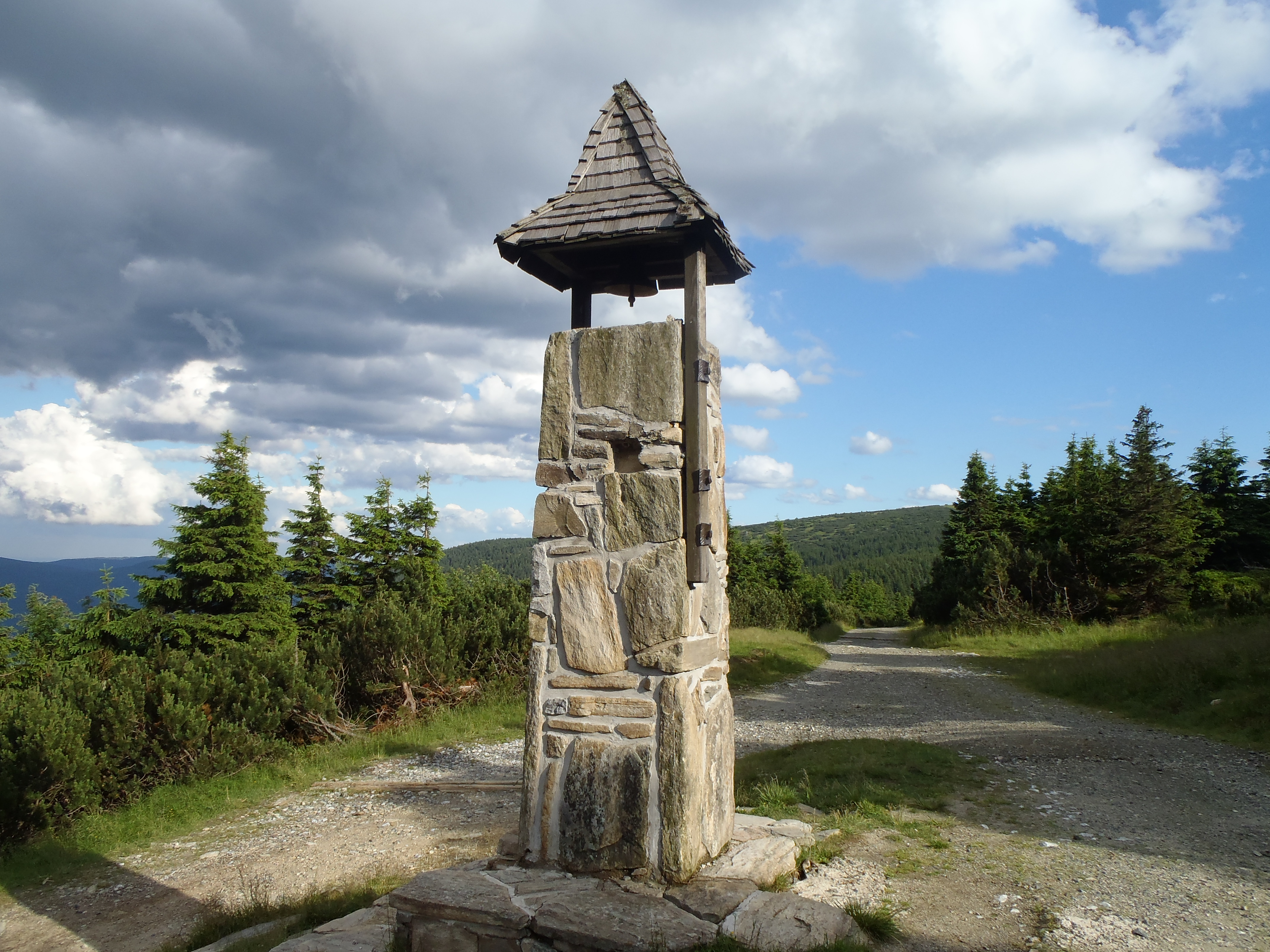 Belfry near tourist path at the summit of Šerák.